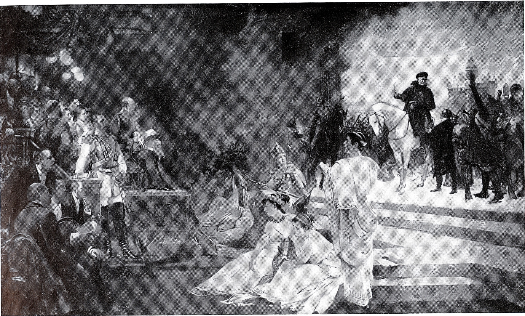 Fritz Neuhaus (1852-1922), Wandgemälde im Sitzungssaal des Neuen Rathauses Düsseldorf, Festspiel vor Kaiser Wilhelm I. im Malkasten am 6.9.1877.jpg